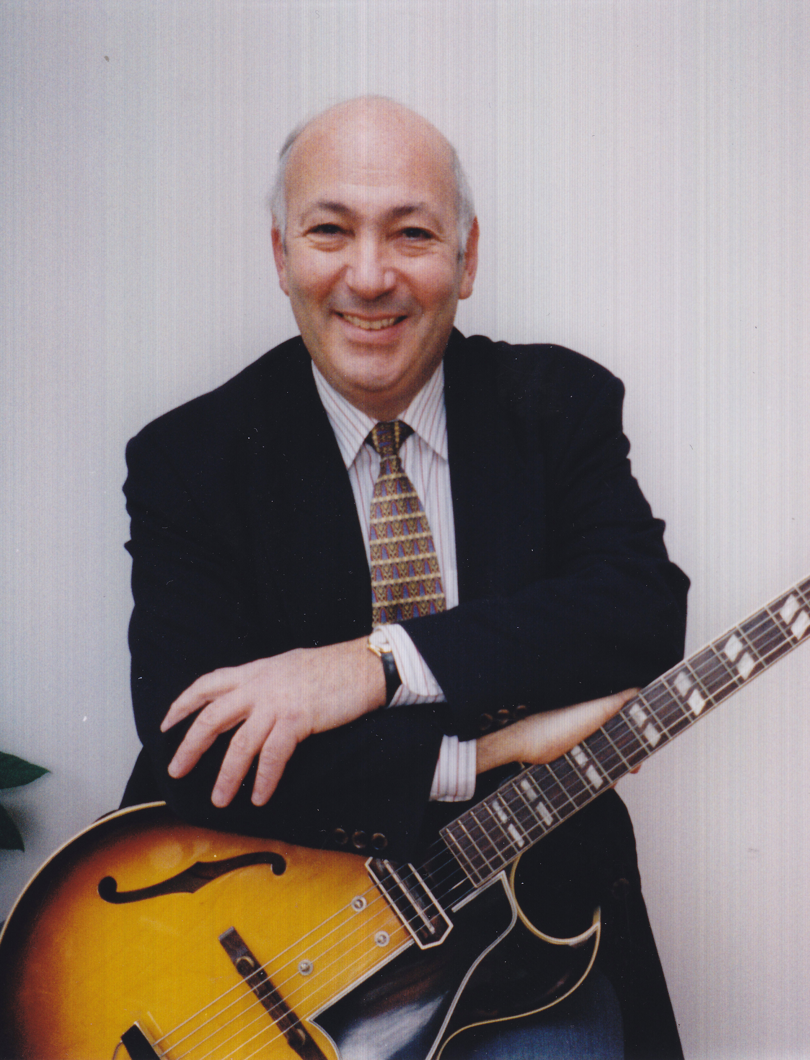 Maurice J. Summerfield pictured c1998 with his Gibson ES 175 guitar.